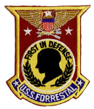 Badge of US Navy aircraft carrier USS Forrestal (CV-59)